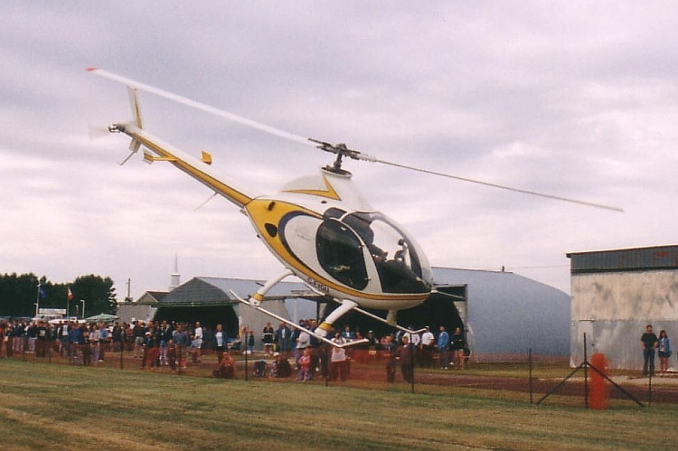 "RotorWay Exec 90 (C-FYGU) at Lacombe, Alberta in 1998."User:Ahunt